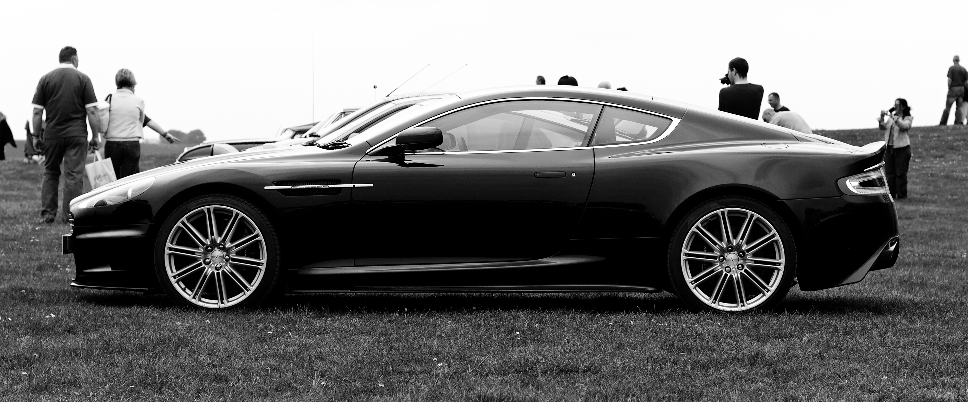 A black and white photograph of an Aston Martin DBS V12 coupé.DSC_1180_DxO_RAW